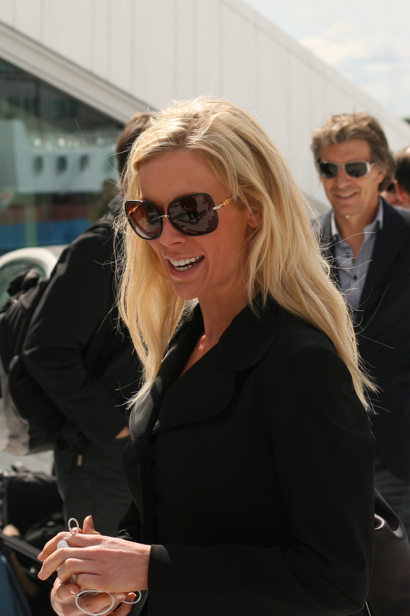 Gunhild_Melhus, wife of Petter Stordalen.